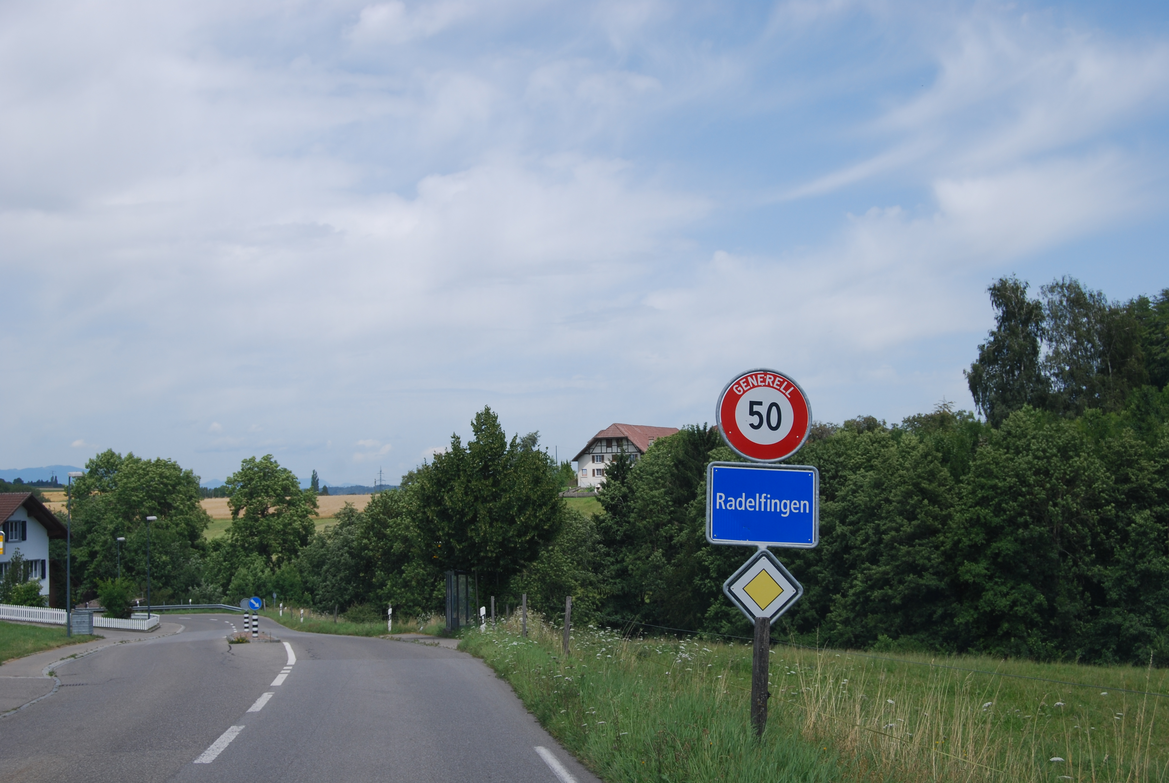 Radelfingen, canton of Bern, SwitzerlandEsperanto: Radelfingen, Kantono Berno, Svislando